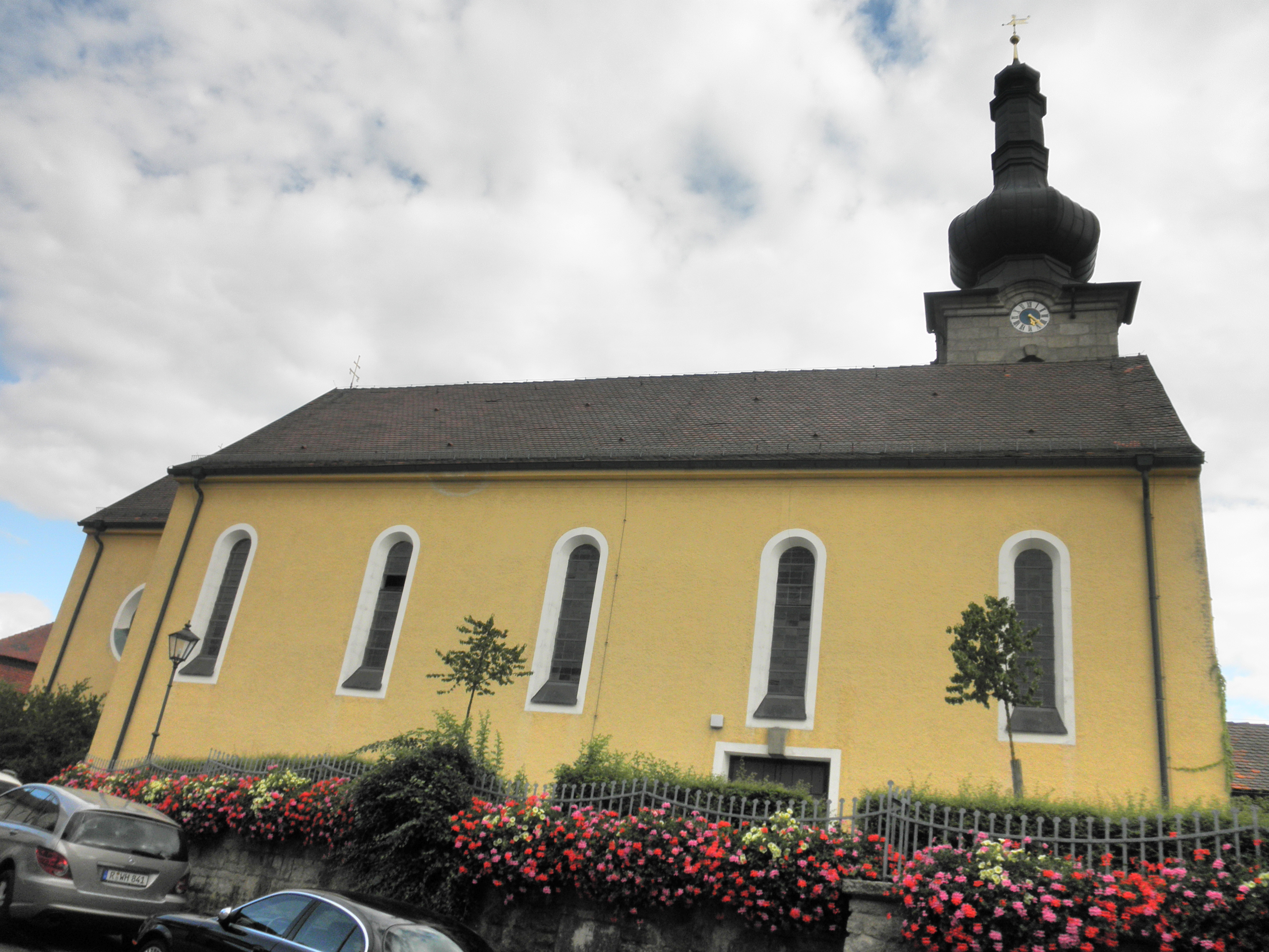 Church in Wurz (Püchersreuth) in Bavaria